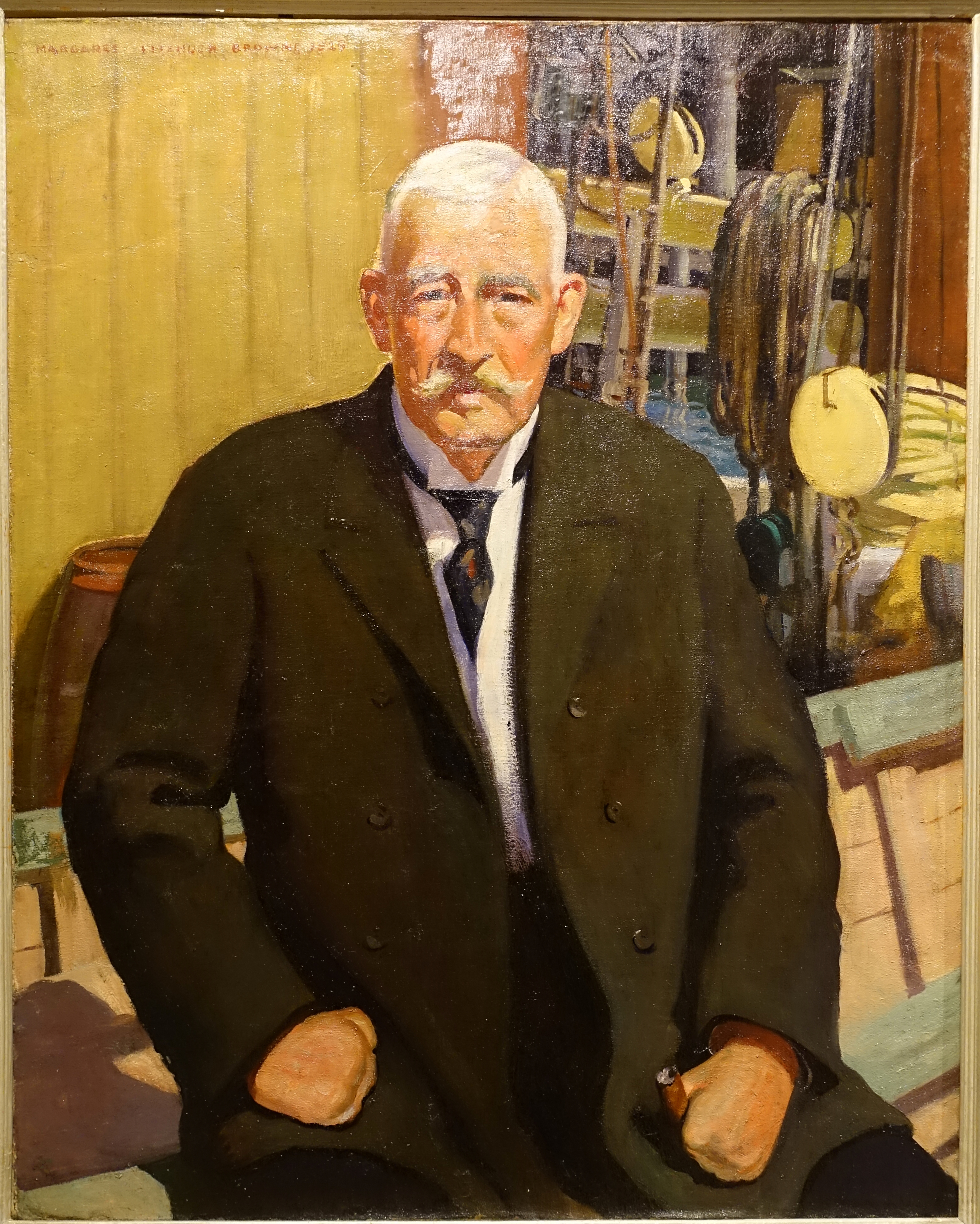 Exhibit in the Cape Ann Museum - Gloucester, Massachusetts, USA.